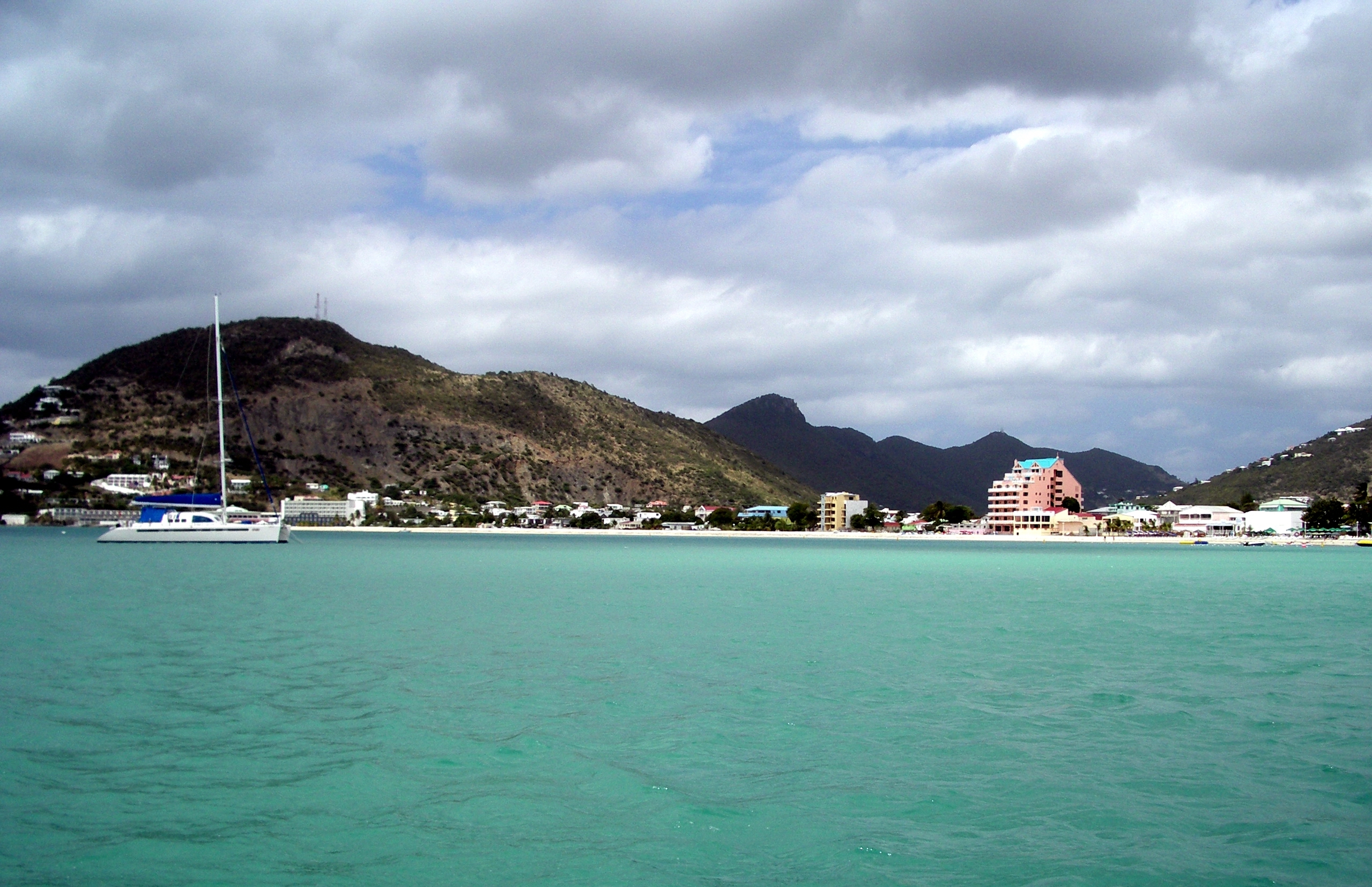 Taken by User:AndonicO, from the Water taxi in Saint Maarten's Dutch side.